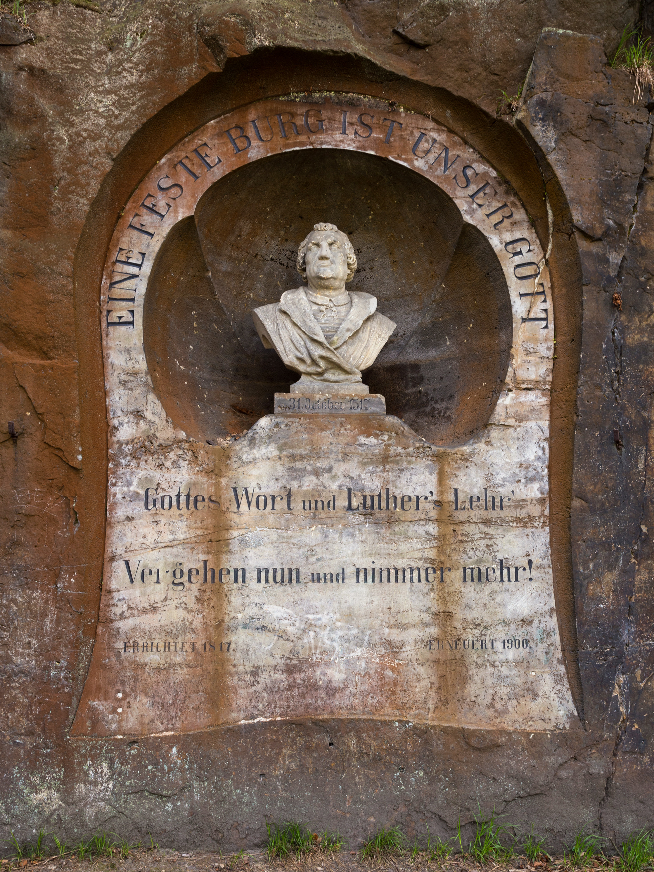 Bad Schandau, Saxony, monument to Martin Luther